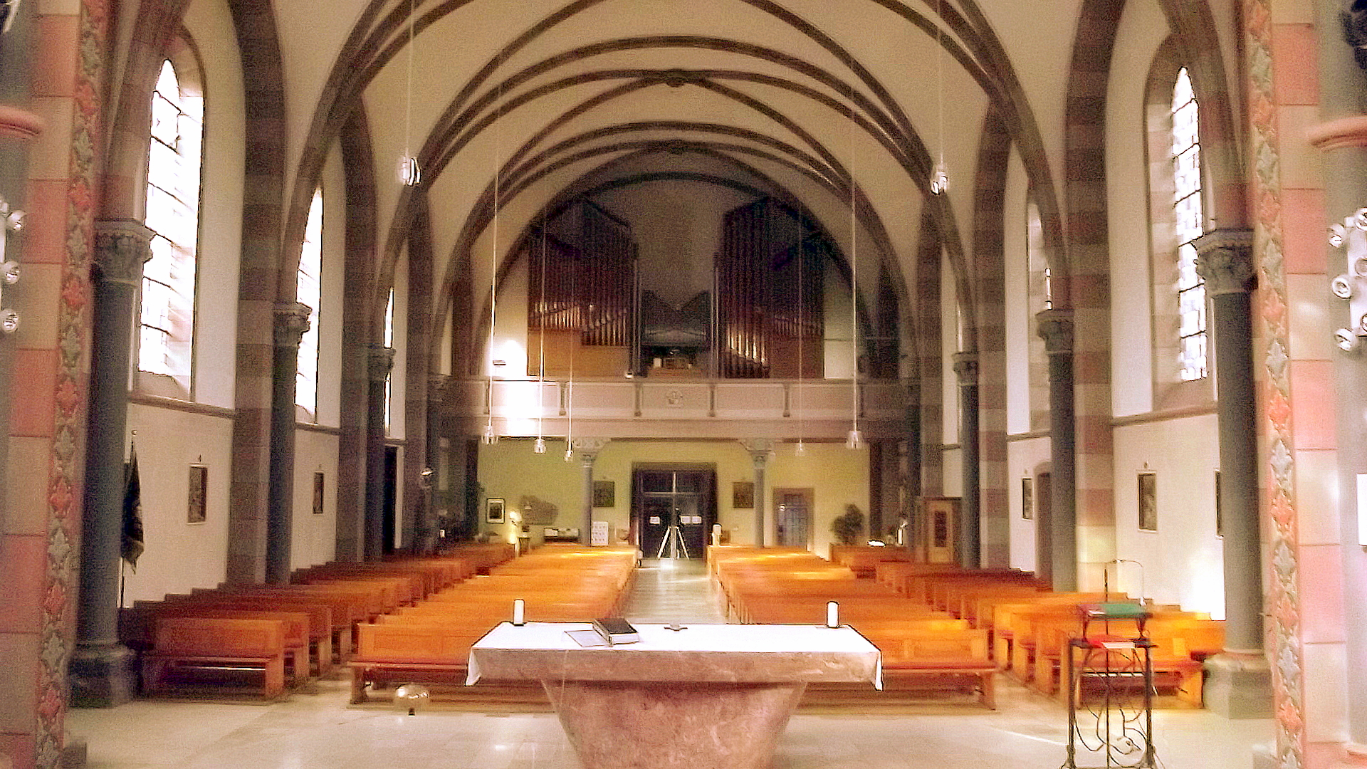 Interior of the roman catholic church in Großrosseln, Saarland, Germany